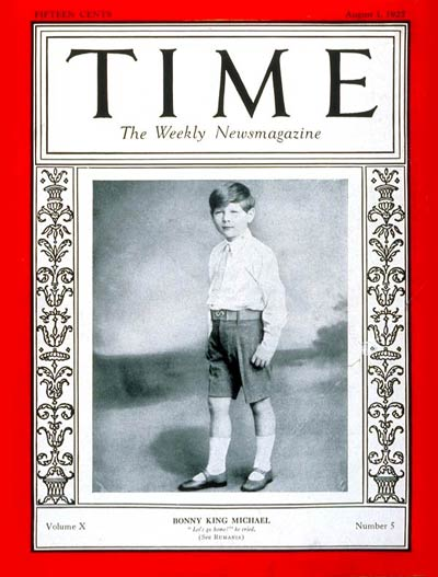 King Michael I of Romania on Time cover 1927.